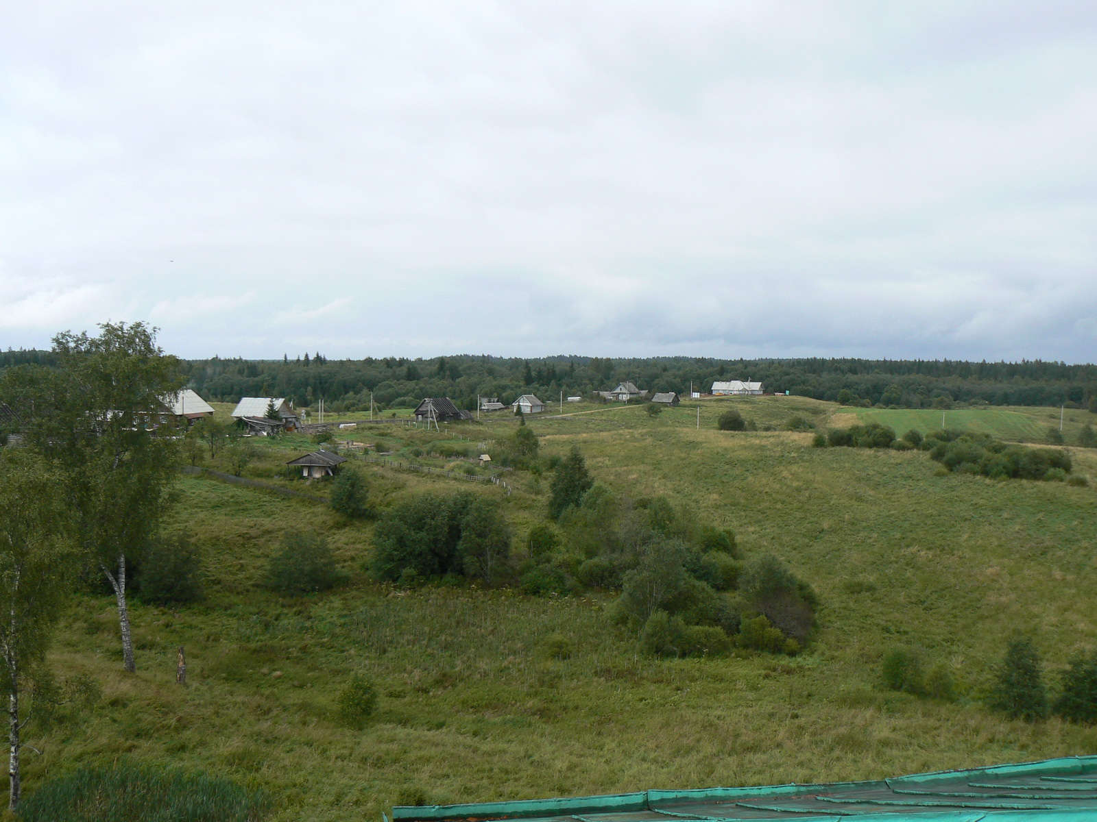 VolgoverhoveHrvatski: Volgoverhovje